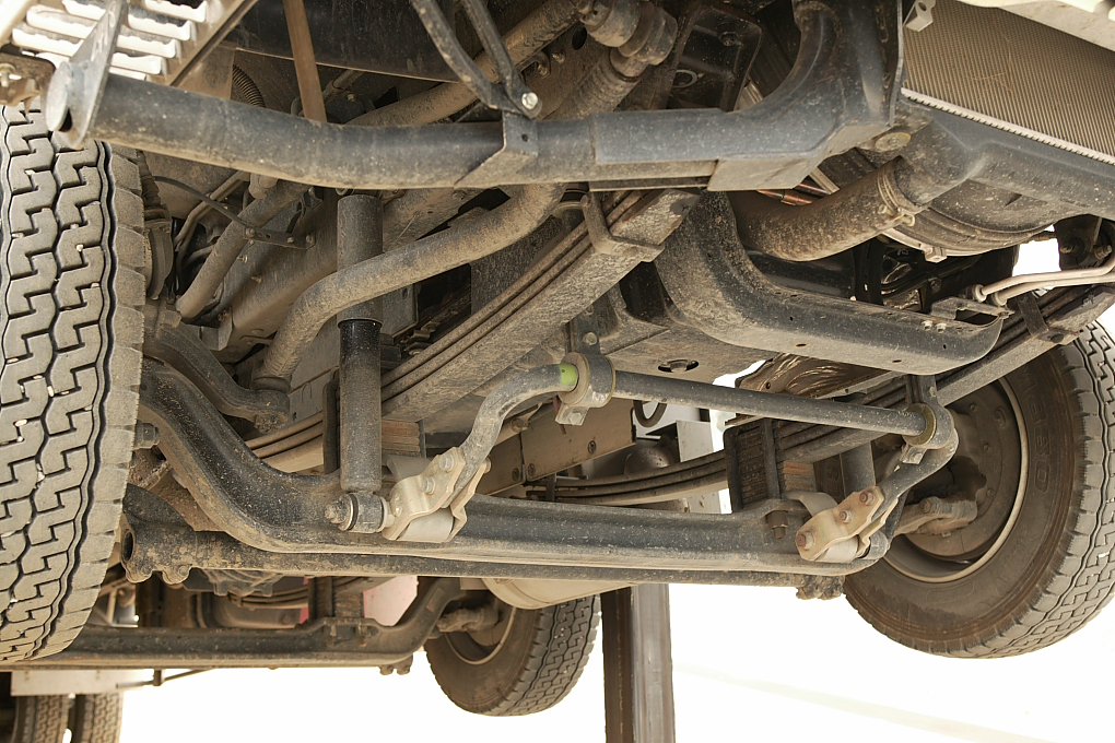 Beam axle.